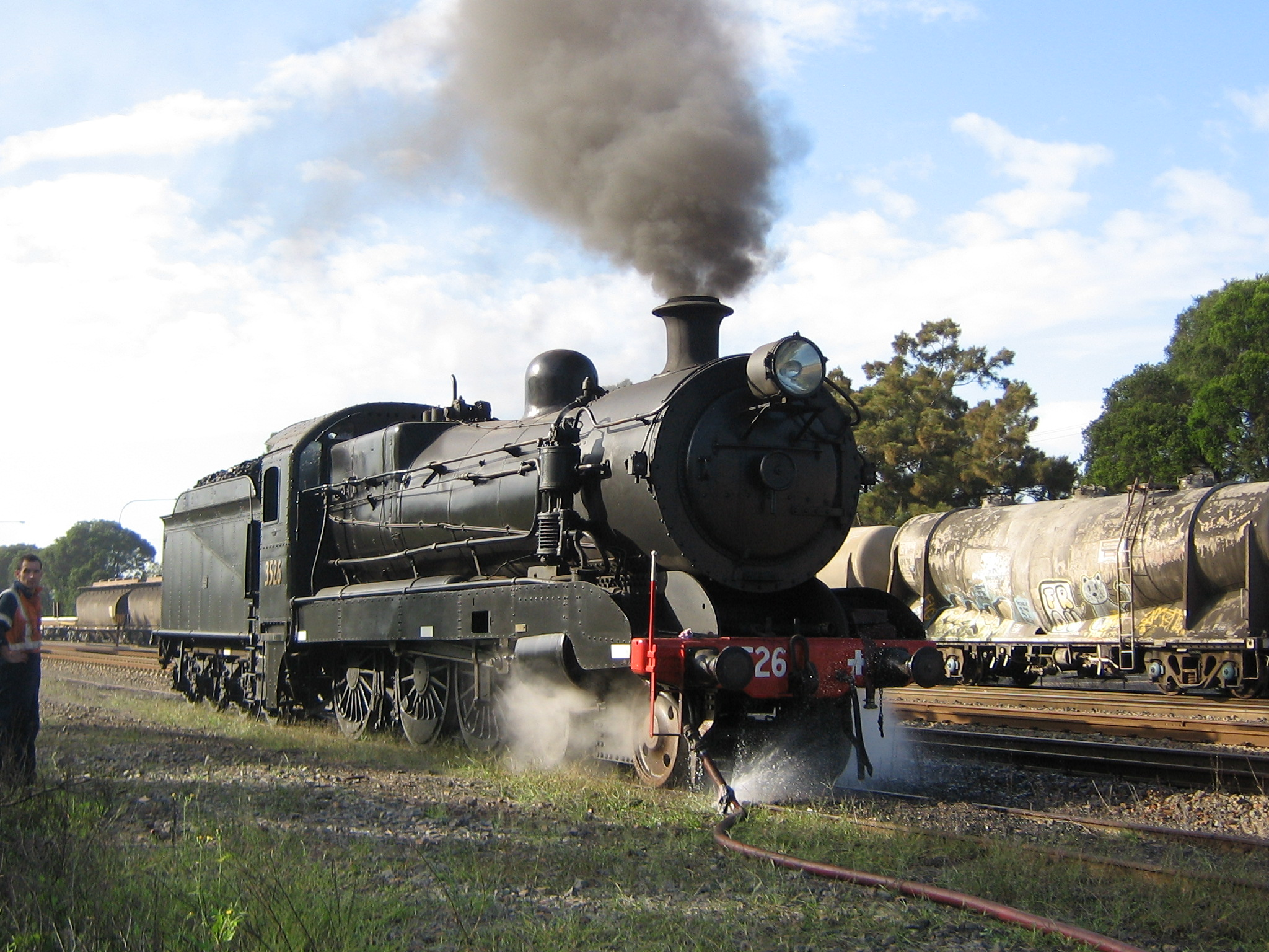 3526 taking on water before it runs during the Hunter Valley Steamfest